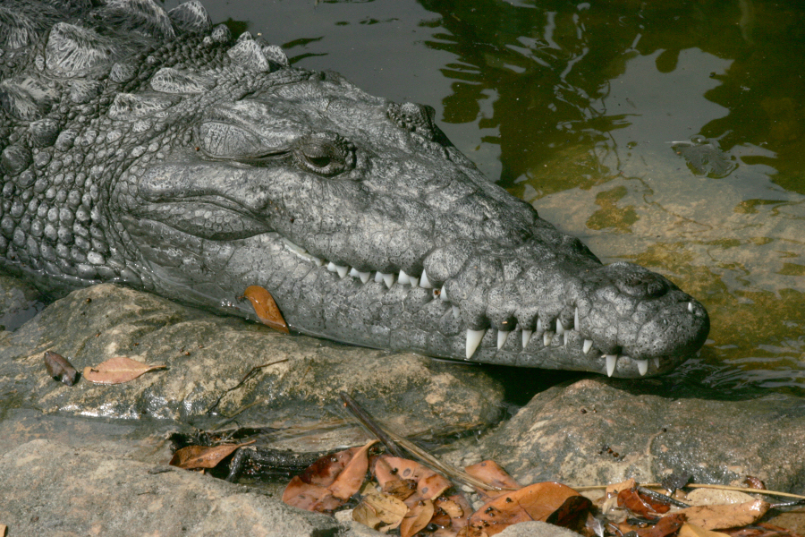 Crocodile d'Amérique dans les Everglades A 900×600 (819 KB) version of this image which was otherwise identical (here) was uploaded 20:03, 21 November 2007 (UTC) to wiki by Moni3 (talk • contribs) with the following summary: The American crocodile can only be found in South Florida, and the Everglades is the only place where alligators and crocodiles live in the same natural habitat. Source Everglades National Park website